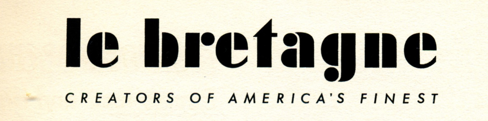 An American metal type specimen sheet of Futura Oblique (sort of like italic - long story). Design shows a hypothetical layout advertising a car. Date presumably late 1920s-1930s, judging by the car portrayed as modern.